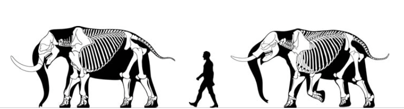 Stegomastodon (left) S. mirificus NMNH 10707 sex male age 30 humerus 850* femur 1010 size group – pelvis 1475 260 cm • 4.7 t Notiomastodon (right) N. platensis MECN 82 size group – pelvis 1500 sex male humerus 866 age 35 femur 965 252 cm • 4.4 t All the skeletal restorations are presented on the same scale (1/100). The human figure is 180 cm tall. Mass estimates are in kilograms for small proboscideans and in tonnes for the larger forms. Shoulder heights are in cm. The age (years), sex, size group, femur and humerus greatest length (mm) (in the case of * it refers to the humerus articular length in mm) and pelvis breadth (mm) are included.